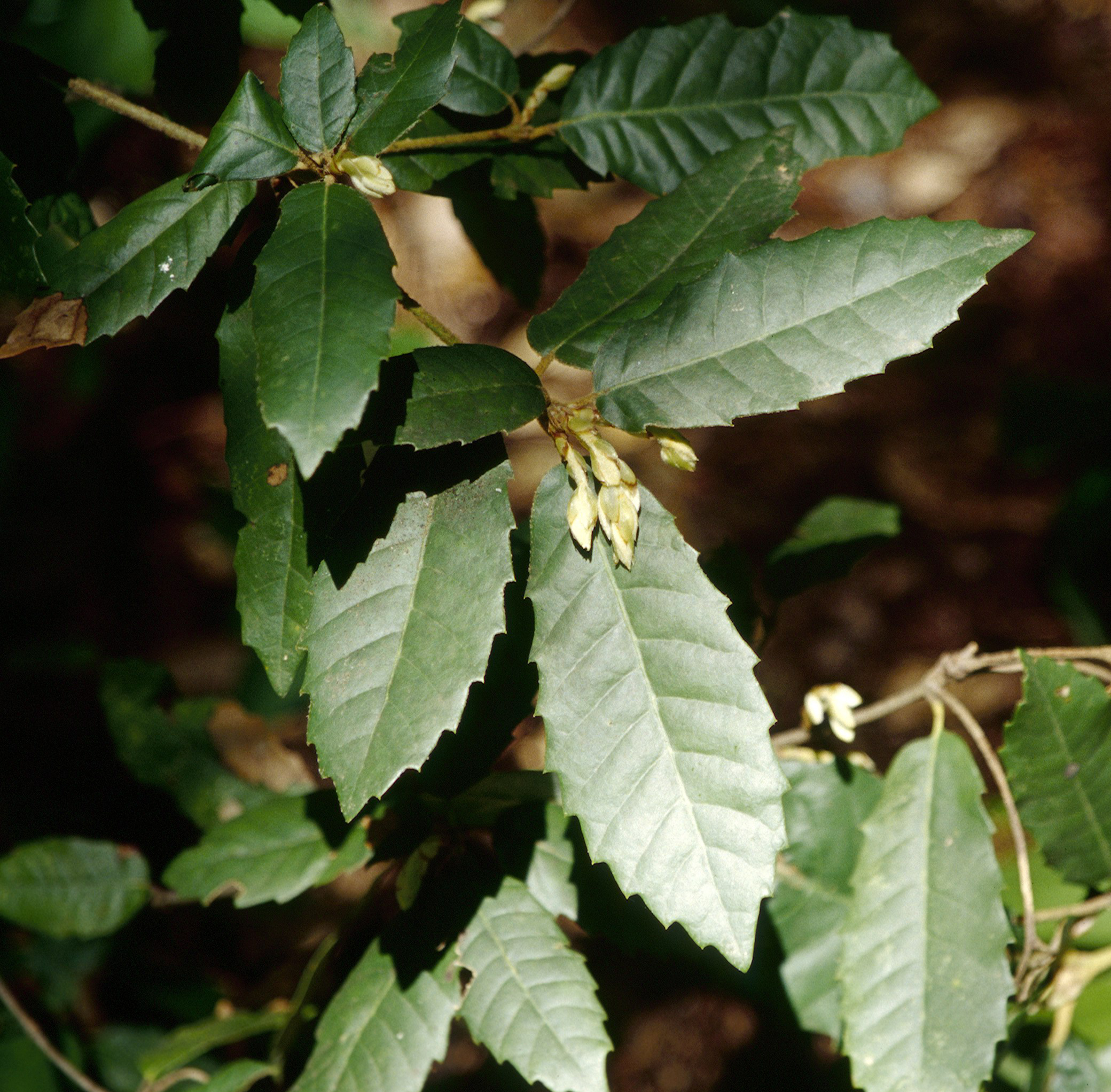 Notholithocarpus densiflorus leaves